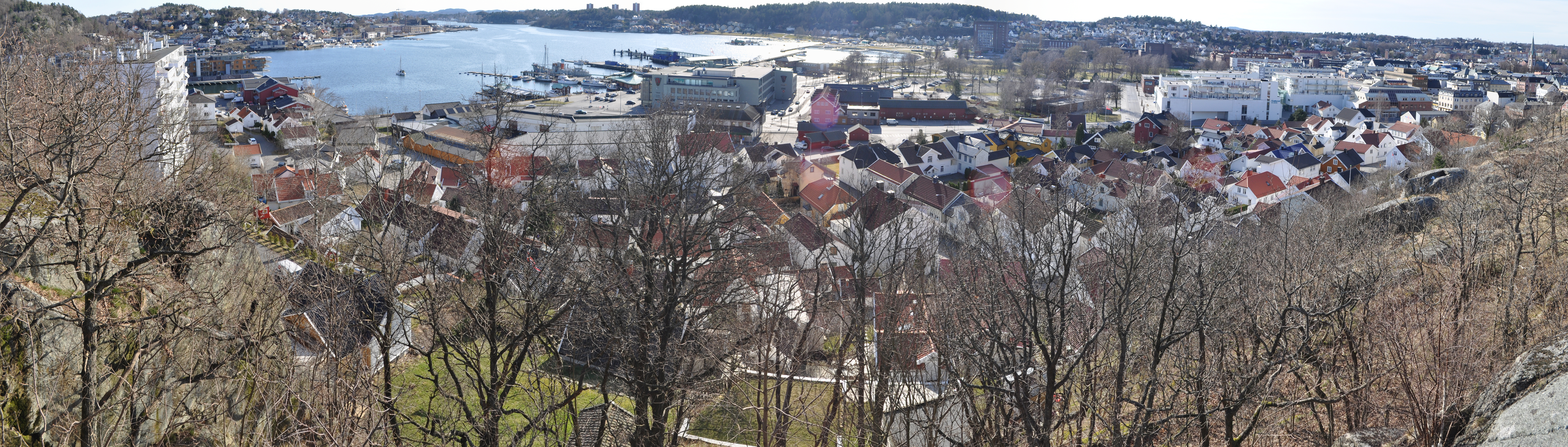 Panorama of Sandefjord